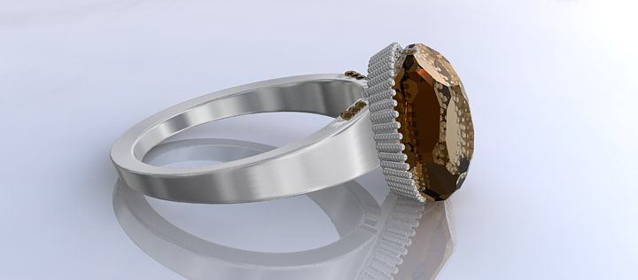 Diamond Ring Design